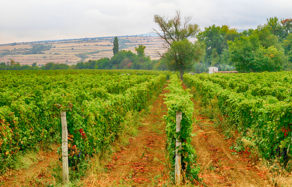 vineyards in pomorie